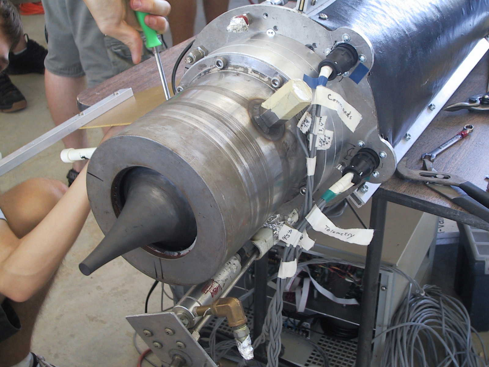 Aerospike engine close up Aerospike engine mounted to P-2 (Photo by Kim Garvey)